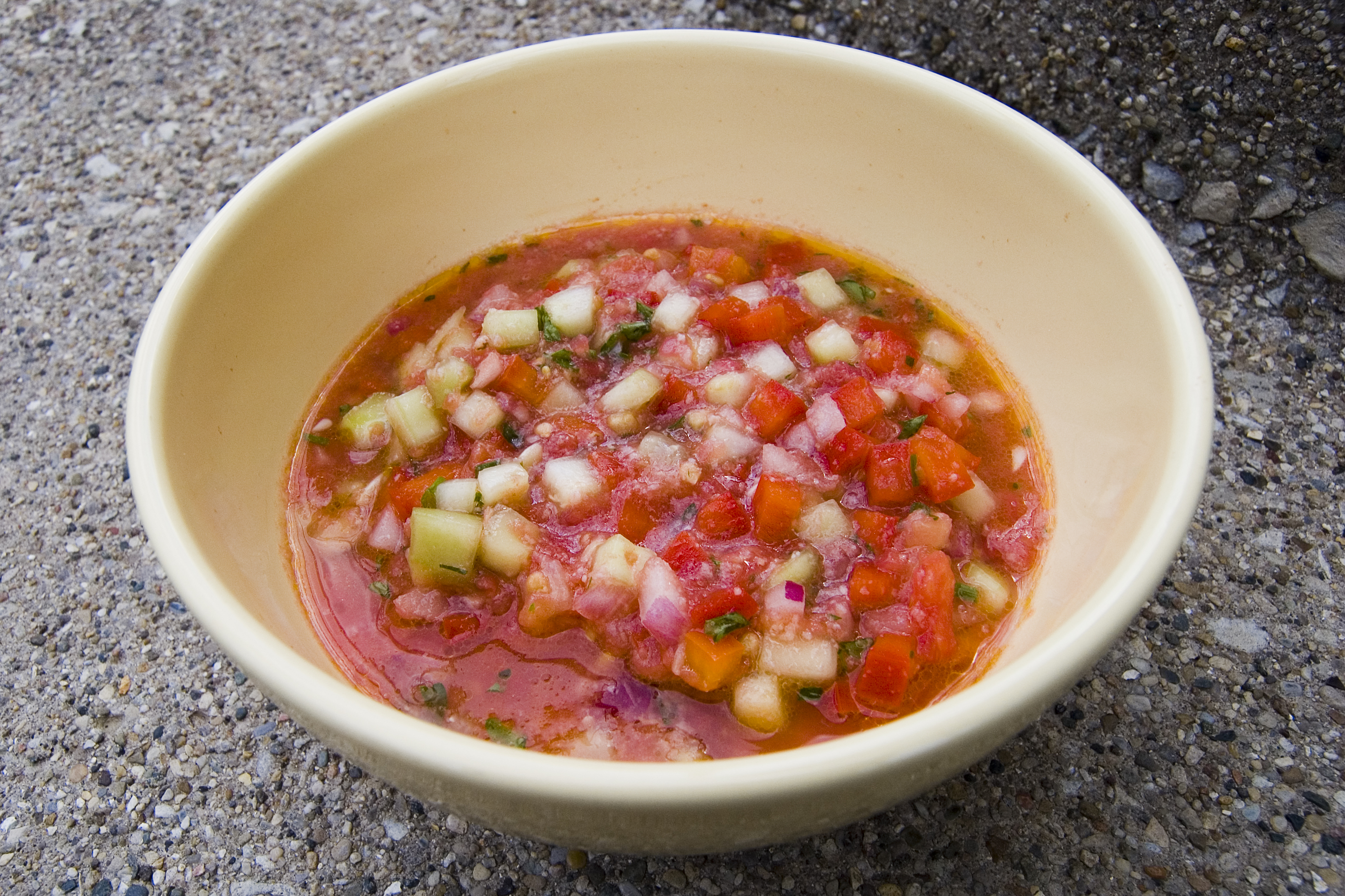 Gazpacho (Spanish liquid tomato salad).